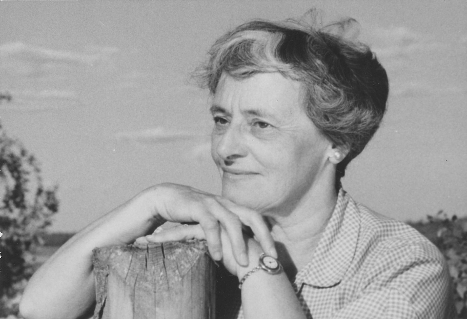 Helen Creighton, ca. 1957